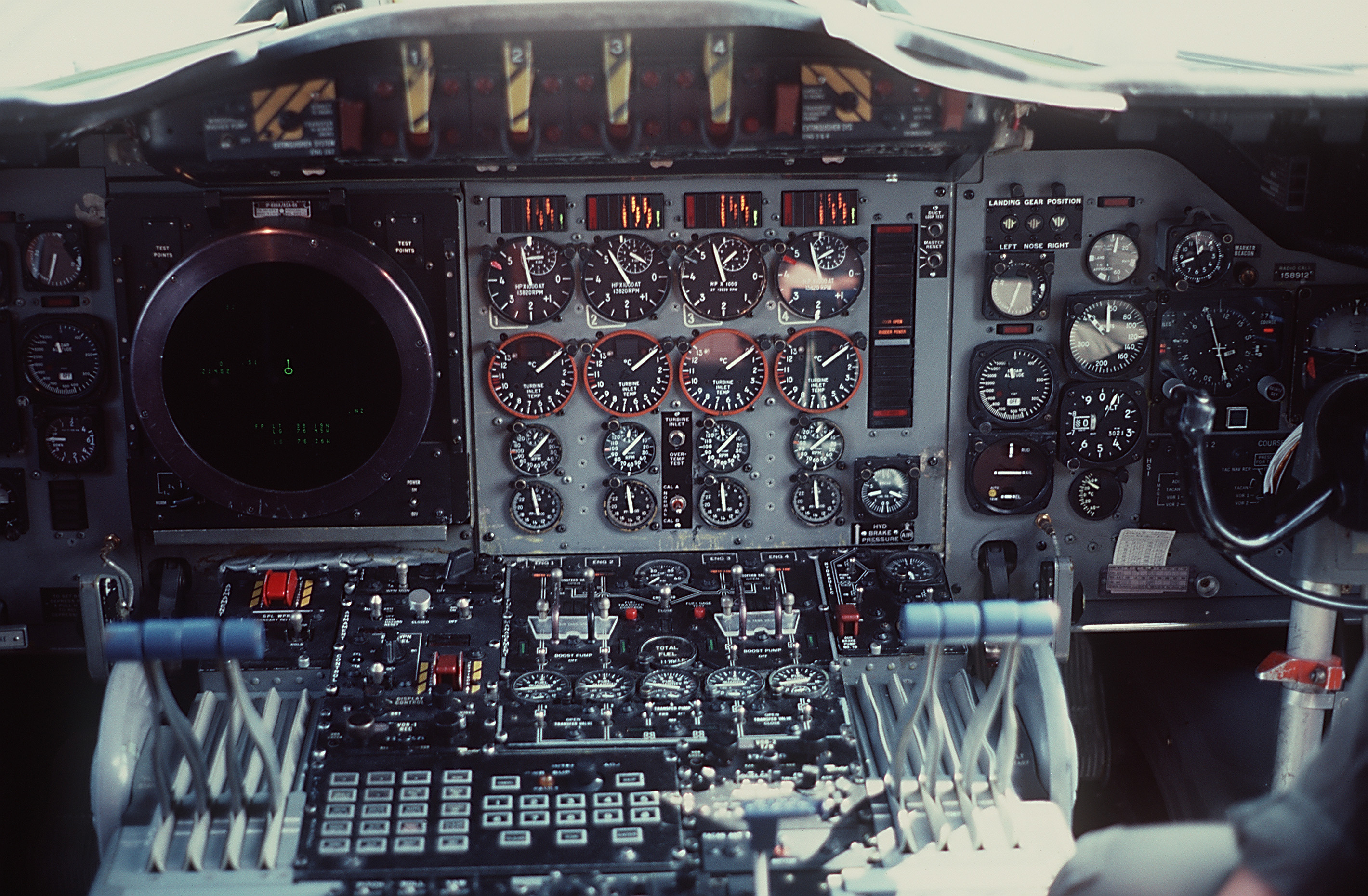 The instrument panel in the cockpit of a Lockheed P-3C Orion anti-submarine patrol aircraft on display at the Naval Air Station Patuxent River (Maryland, USA) on 2 Sep 1985.